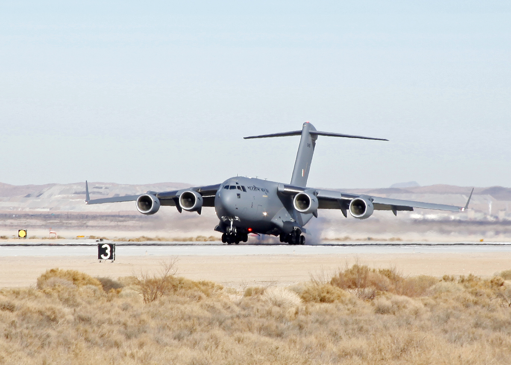 The first C-17 heavy-lift aircraft built for the Indian Air Force touches down on Runway 22L. The 418th Flight Test Squadron will begin aircraft inspection and routine flight testing for the next two months.